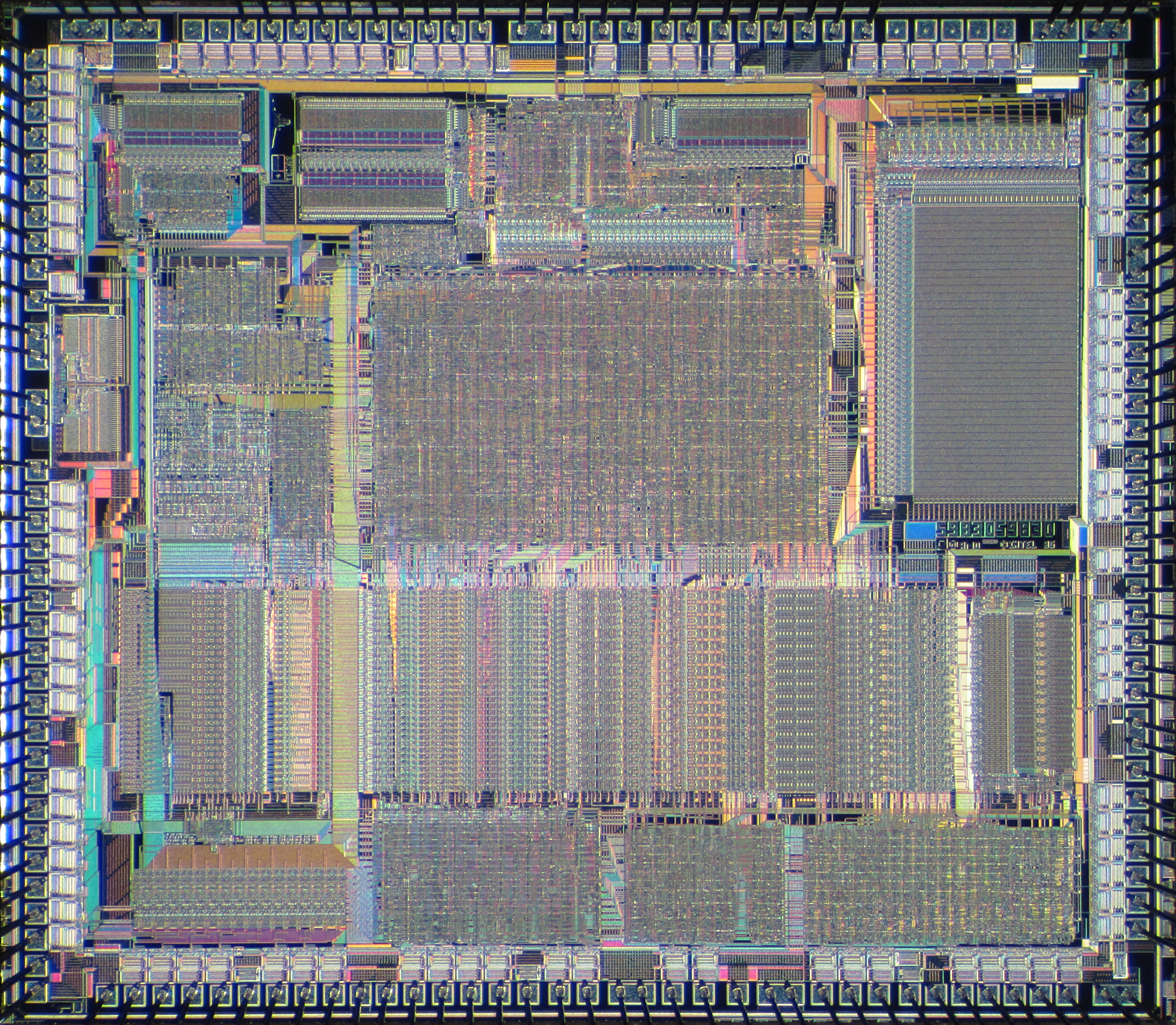 Die shot of AMD Am386 DX/DXL-40 (A80386DXL-40 and A80386DX-40).